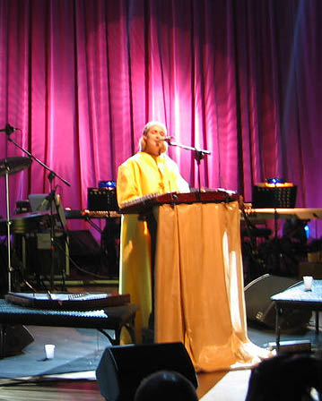 Derivative image of Image:Dean Can Dance3.jpg - portrait of Lisa Gerrard-Dead Can Dance Lisa Gerrard